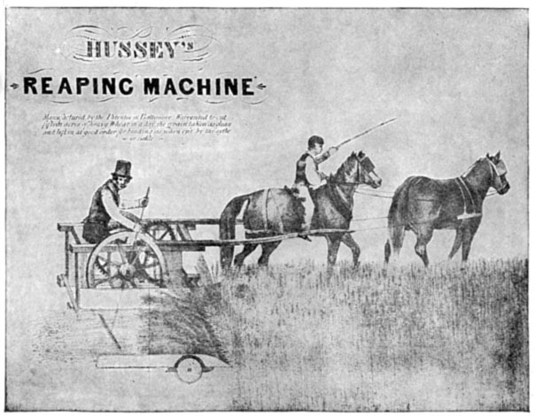 Hussey's Reaping Machine, invented in the 1830s; 19th centure image likely